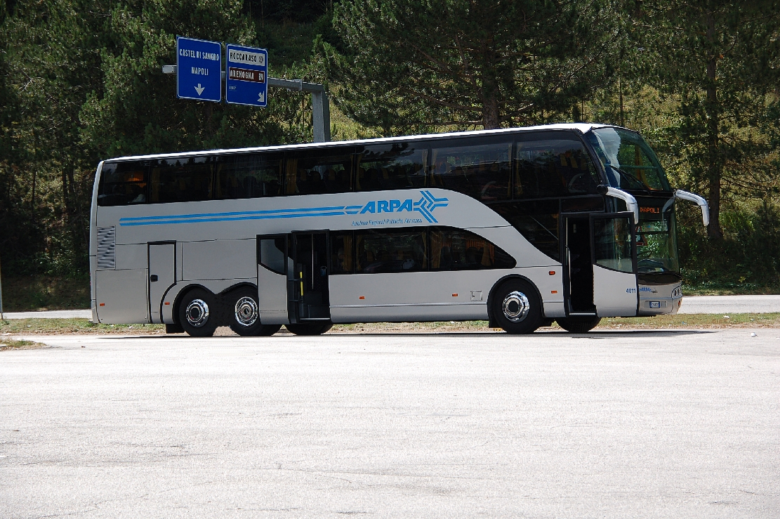 State road 17. Double-decker coach (#4011) in Italy. ARPA operator.